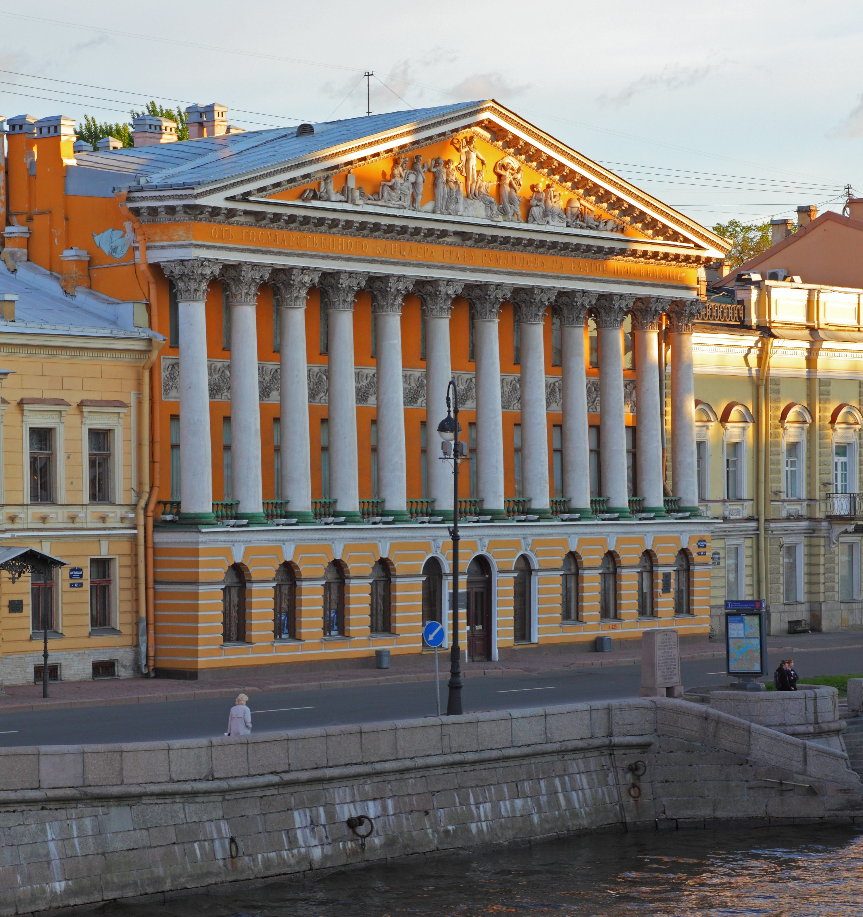 Saint Petersburg, Russia. English Embankment, house 44 (Rumyantsev House).